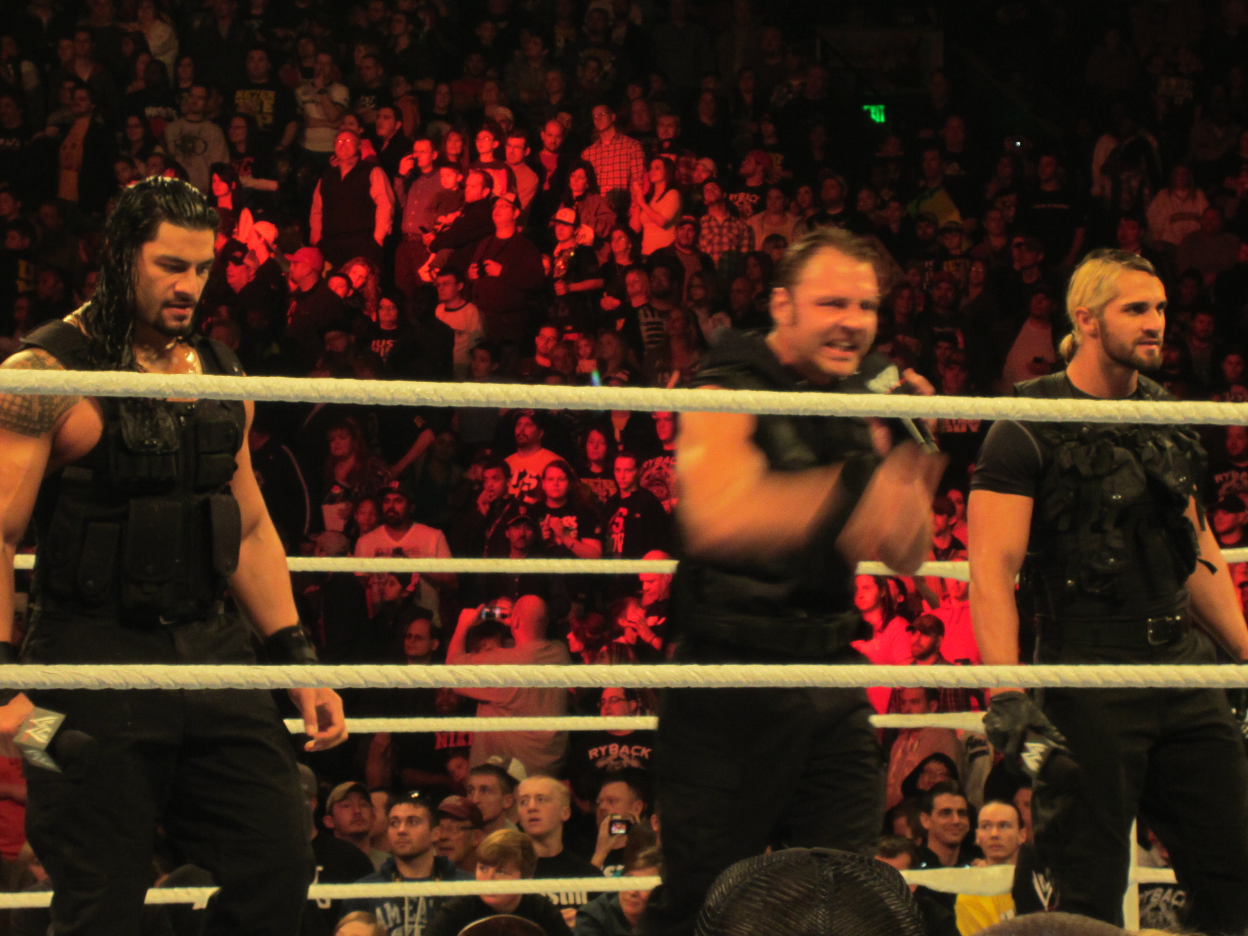 the shield